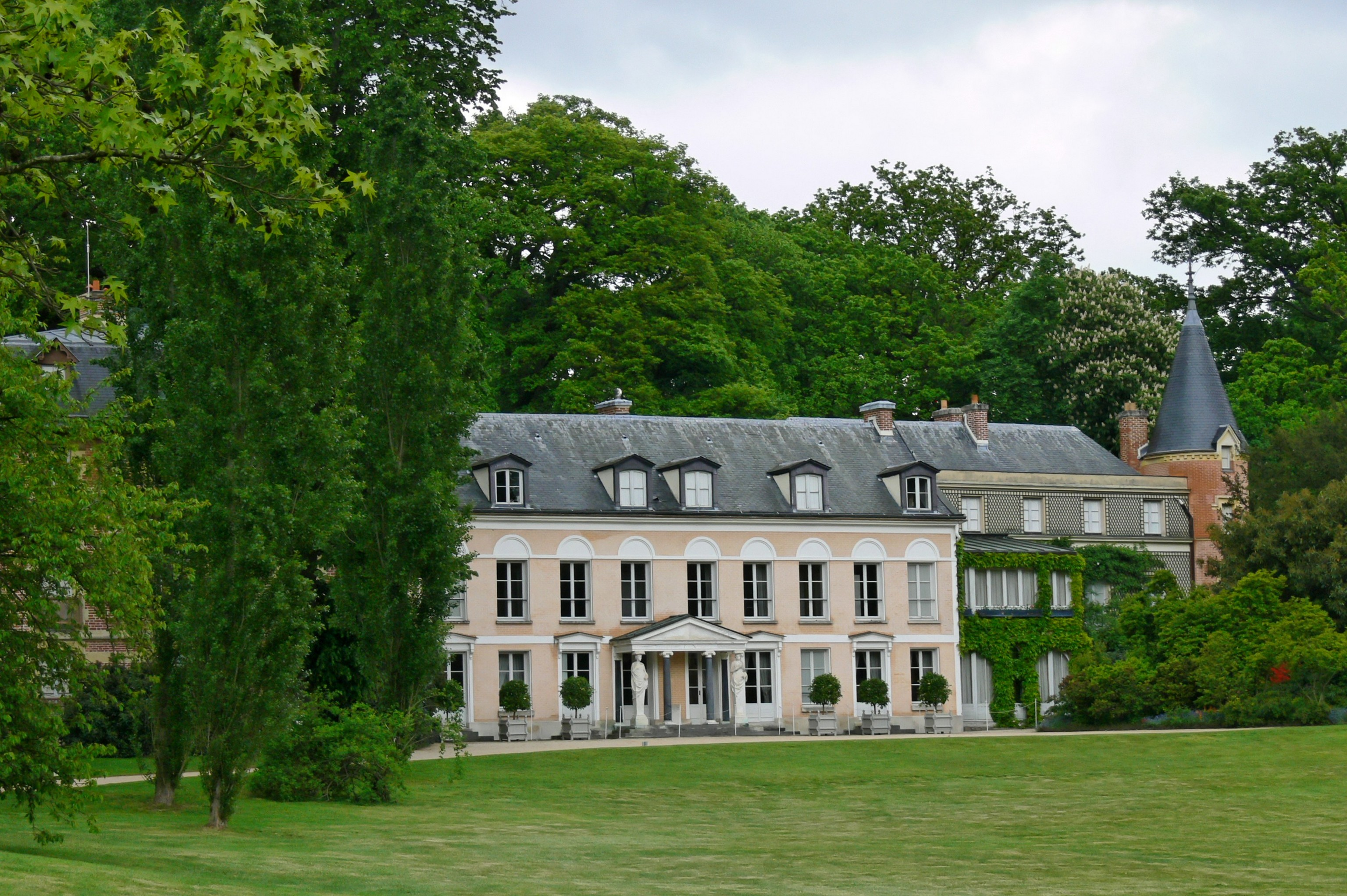 La maison de Chateaubriand à Chatenay Malabry (92)